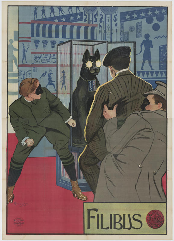 Poster for the 1915 film Filibus (Corona Films, Italy).